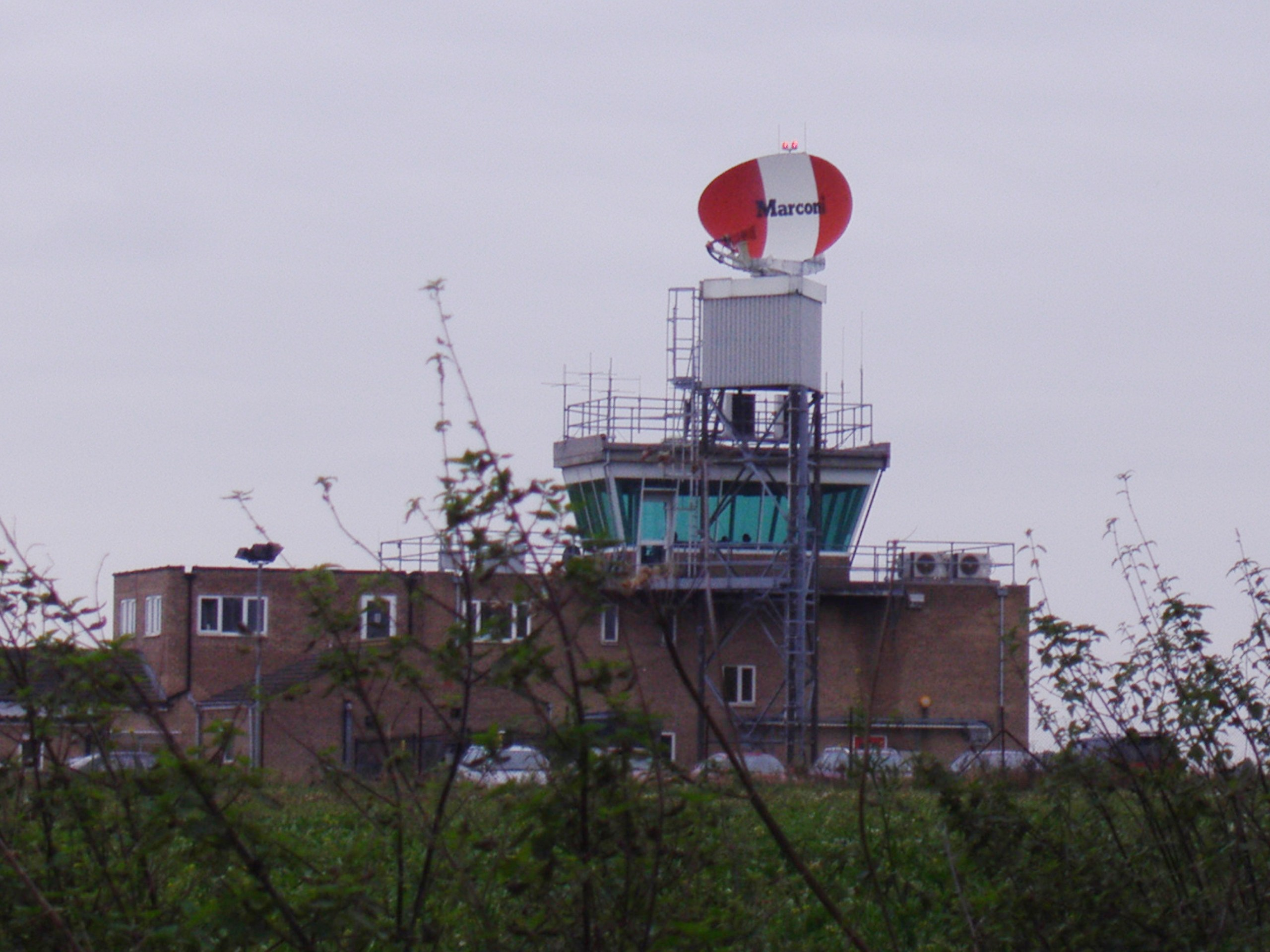 A Digital Photograph of the Control Tower at Norwich Airport, Taken on the 24th October 2007 by stavros1